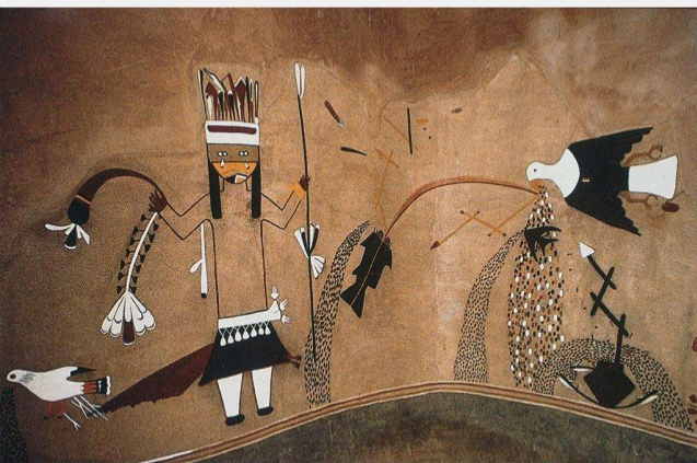 Detail of a restored kiva mural, Kuaua pueblo, Coronado State memorial